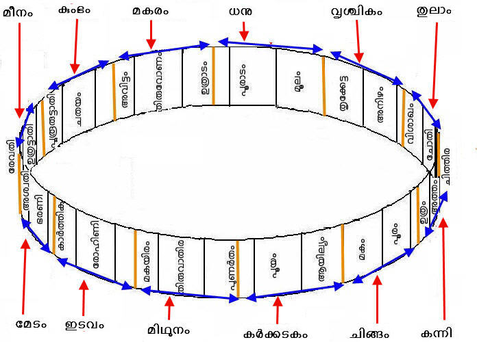 Malayalam naalukal